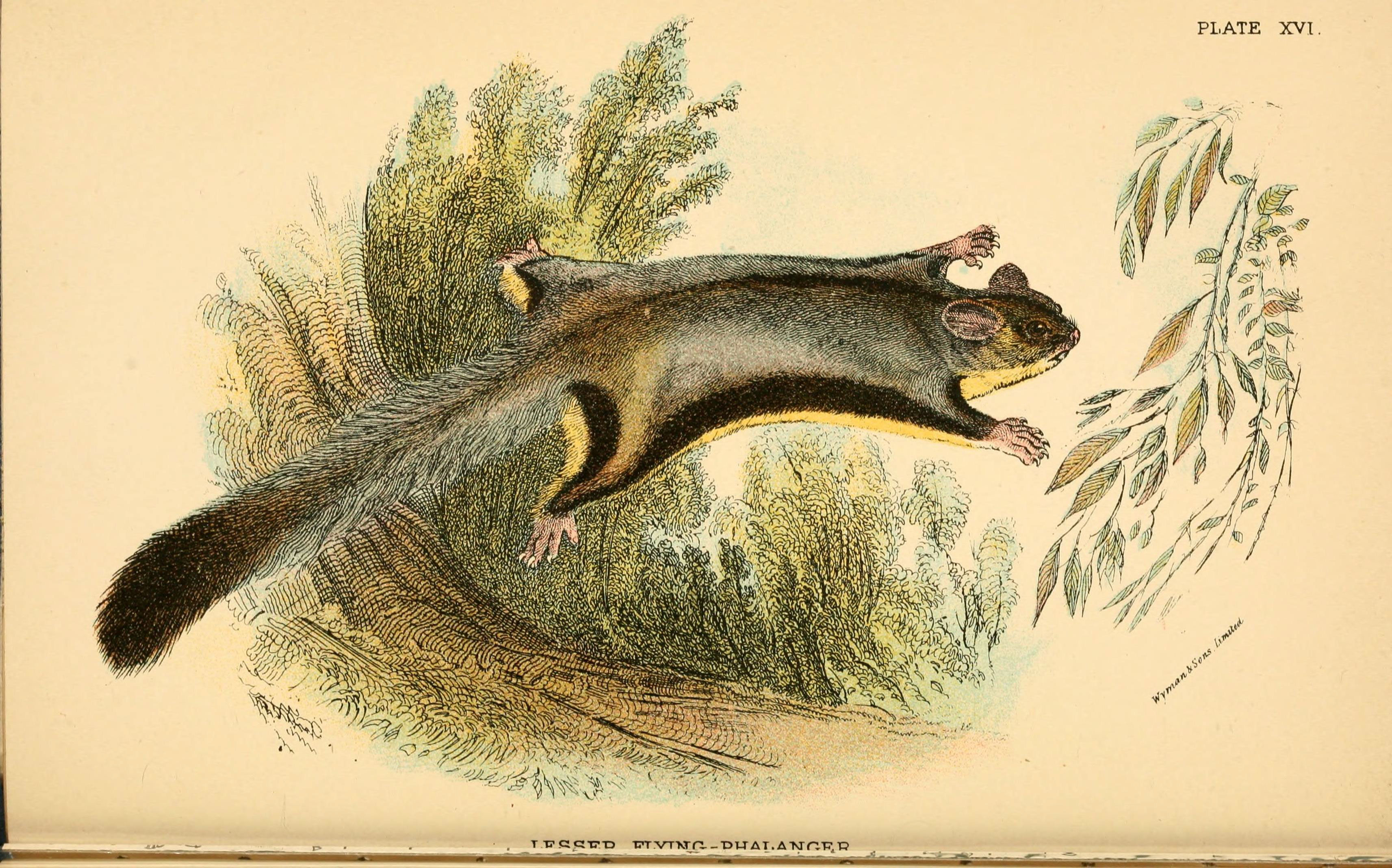 A hand-book to the marsupialia and monotremata / by Richard Lydekker.